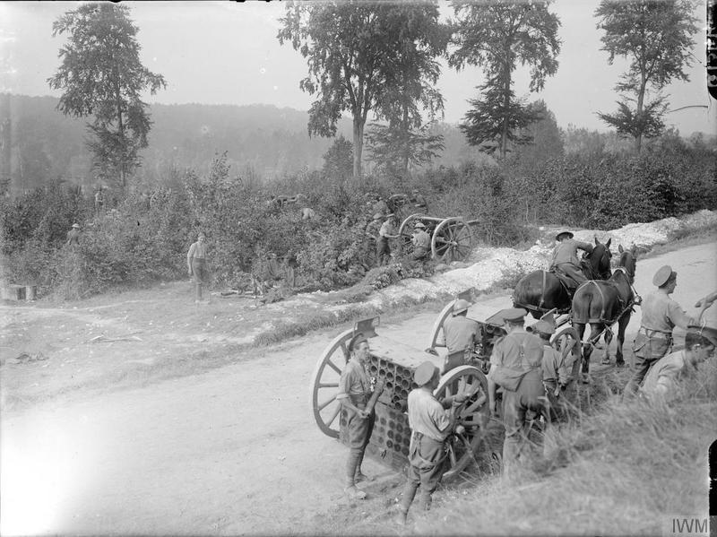 The Battle of the Somme, July-november 1916 Battle of Thiepval Ridge, 26-28 September 1916. 18 pounder battery of the Royal Field Artillery in action by the roadside, Authuille.